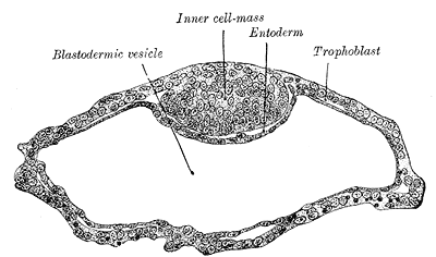 Blastodermic vesicle of Vespertilio murinus. (After van Beneden.)